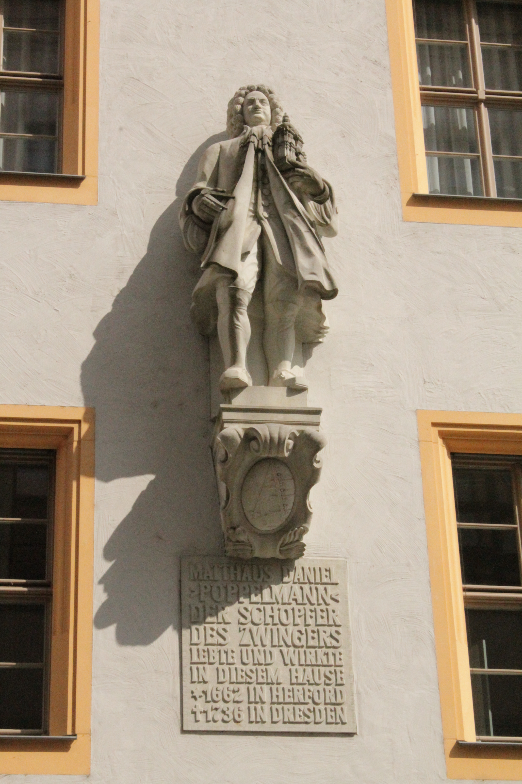 Monument to Matthaus Poppelmann, Dresden Castle